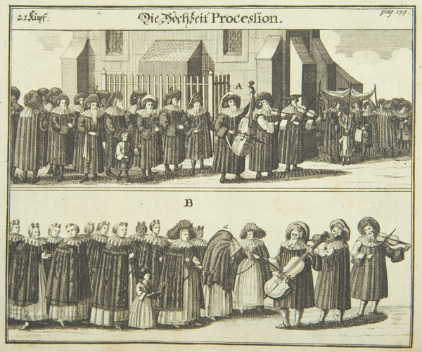 German copperplate engraving, ca. 1700. Juedisches Ceremoniel In the top panel, the bridegroom is led past the synagogue by the male members of the community to the wedding canopy visible on the right. In the bottom panel, the veiled bride is being escorted to the ceremony by the women of the community.